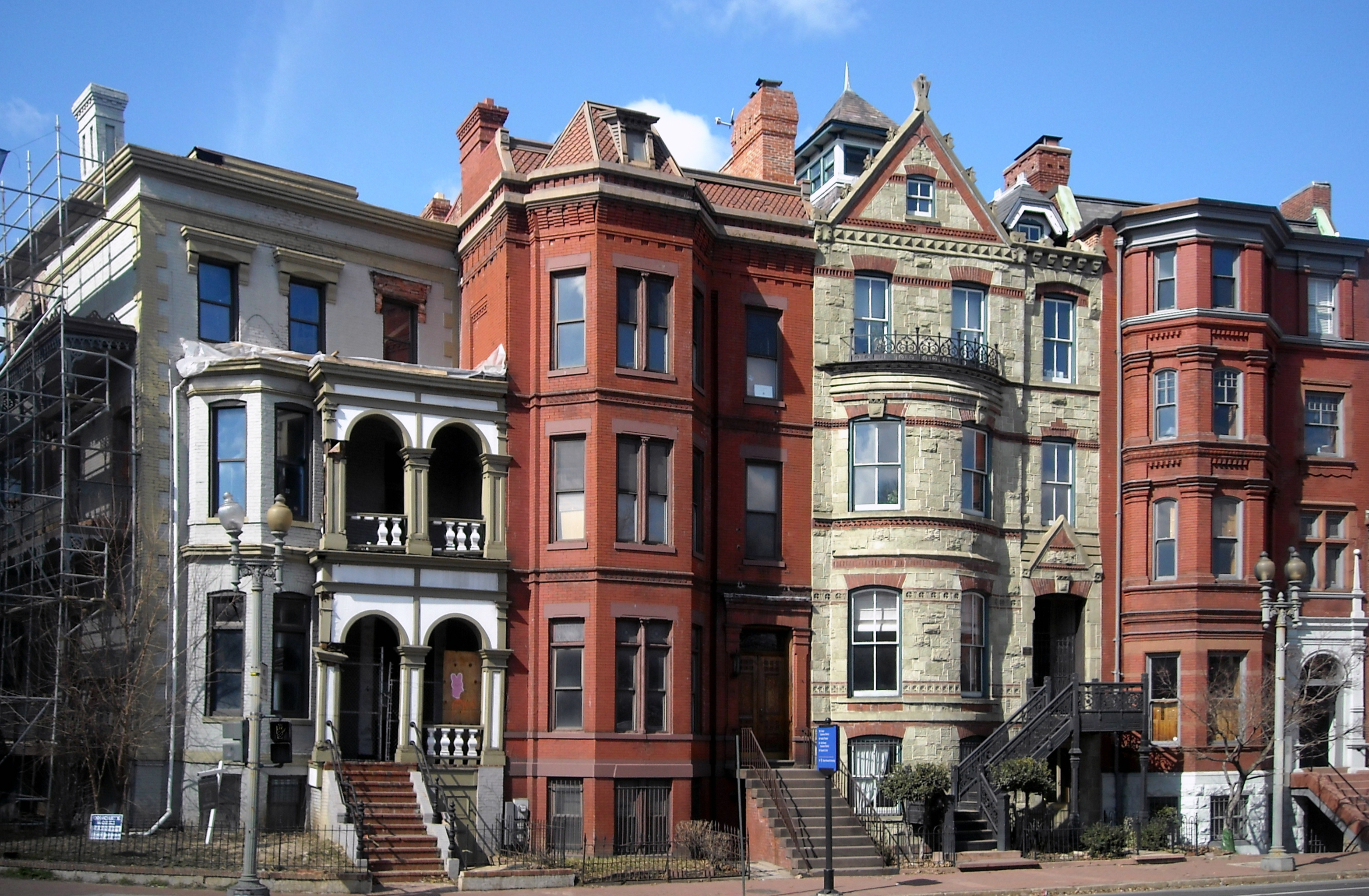 Row houses located at 4–7 Logan Circle, N.W., in the Logan Circle neighborhood of Washington, D.C. The homes are designated as contributing properties to the Logan Circle Historic District, listed on the National Register of Historic Places (NRHP) in 1972, and the Greater Fourteenth Street Historic District, listed on the NRHP in 1994. 4 Logan Circle – Built around 1875, the three-story, brick, Renaissance Revival-style row house briefly served as the residence of John A. Logan, Commander of the Army of the Tennessee during the Civil War, Commander of the Grand Army of the Republic, and U.S. Representative and U.S. Senator for the state of Illinois. Additional occupants of the house, which is now undergoing renovation and serves as a housing cooperative, have included John Fletcher Hurst. 5 Logan Circle – Built around 1880, the four-story, brick, Second Empire-style row house originally served as the residence of patent attorney Dwight Partello. Additional occupants of the house have included Ruth Johnson, editor of the YWCA USA's Live Y'er newsletter. 6 Logan Circle – Built in 1878 to the designs of architect Henry R. Searle, the five-story, stone, Richardsonian Romanesque-style row house originally served as the residence of Naval Commander Allen V. Reed. From 1940 until 1982, the building functioned as a nine-unit apartment house. The headquarters for the Institute for Cooperation in Space and Centeye Inc. were previously located at the address. 6 Logan Circle currently serves as a six-unit condominium. 7 Logan Circle – Built around 1880, the five-story, brick, Romanesque Revival-style row house previously served as the residence of Dr. Rurie C. Roark, an author and pioneer in insecticide chemistry at the U.S. Department of Agriculture. 7 Logan Circle currently functions as a nineteen-unit condominium.